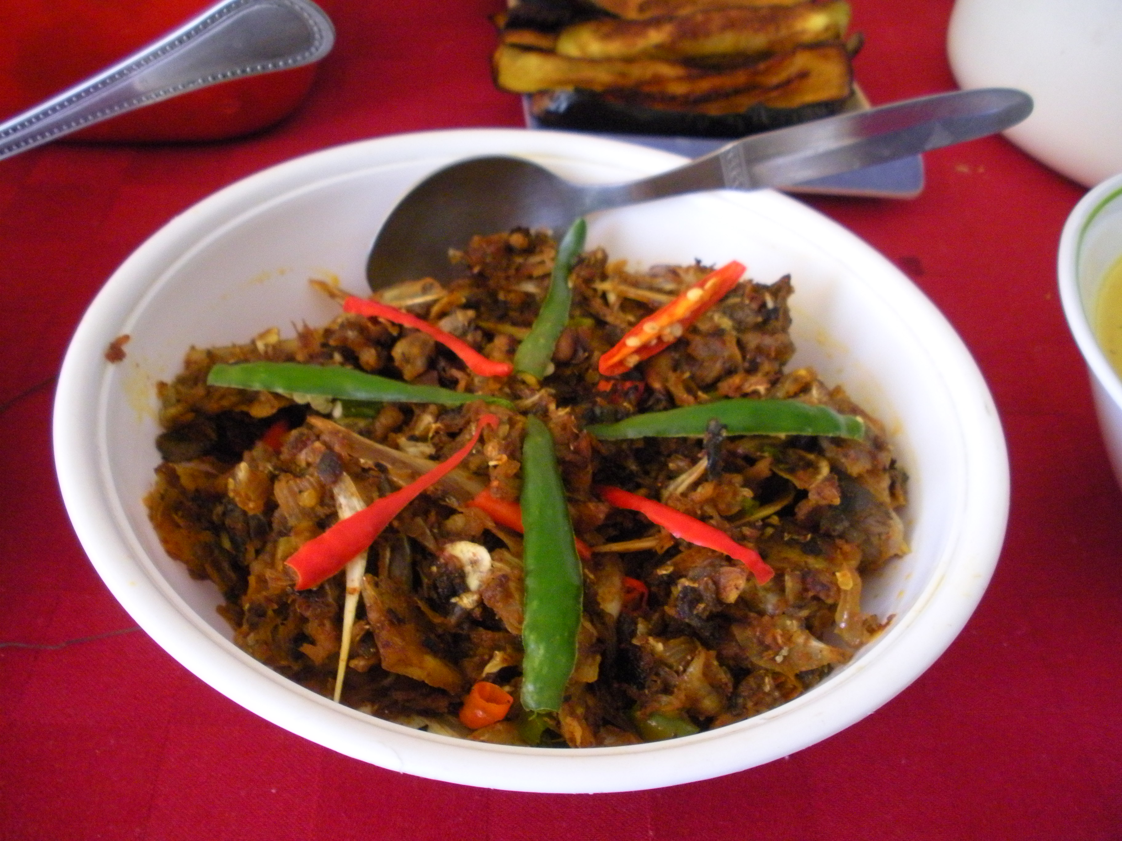 It is a delicacy from Bengali ( bangali ) ( বাঙালি ) cuisine. Nothing should go wasted. This is cooked with fish bones of Bhetki fish.